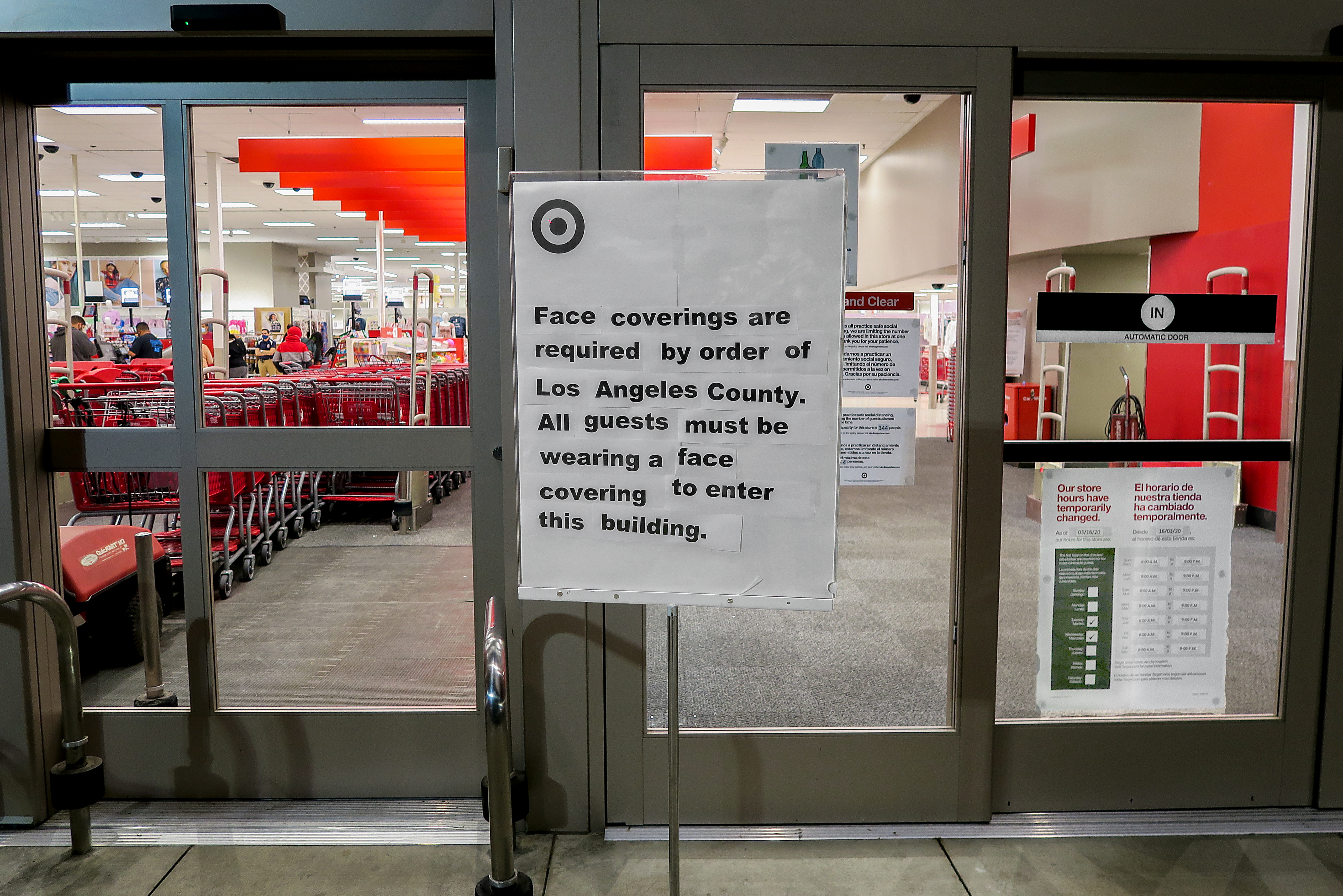 Target stores in Los Angeles County are enforcing the mandatory face mask order.